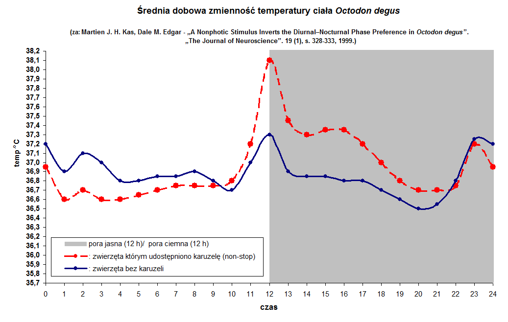 Graph of variation of body temperature degus (O. degus) based on analyzes of Martien J. H. Kas & Dale M. Edgar